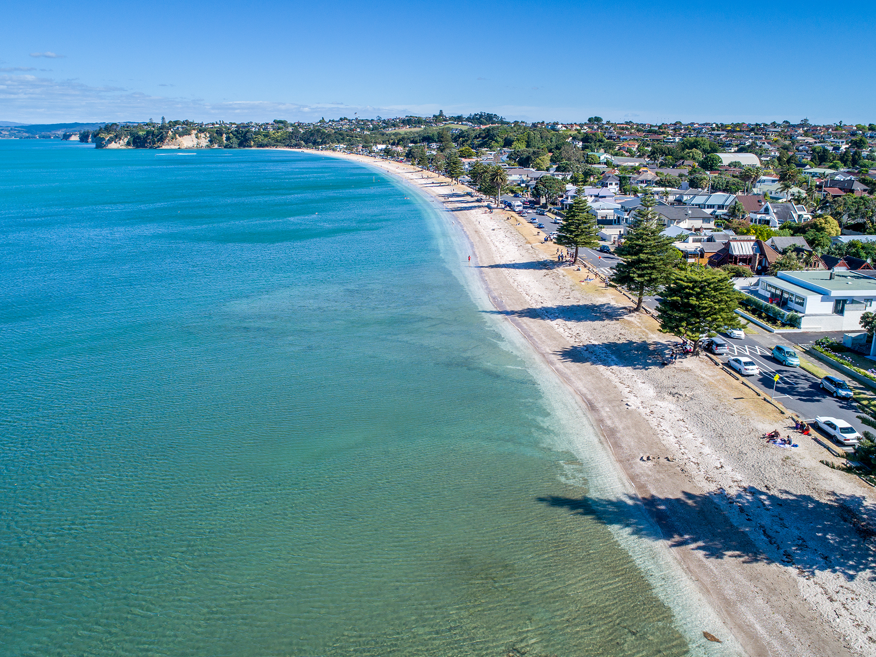 Drone shot aerial image of Eastern Beach during summer